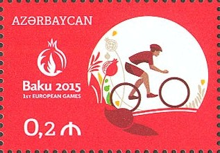 Baku 2015. First European Games.(2nd edition) N 1213 - 20 qapik – Cycling Mountain Bike